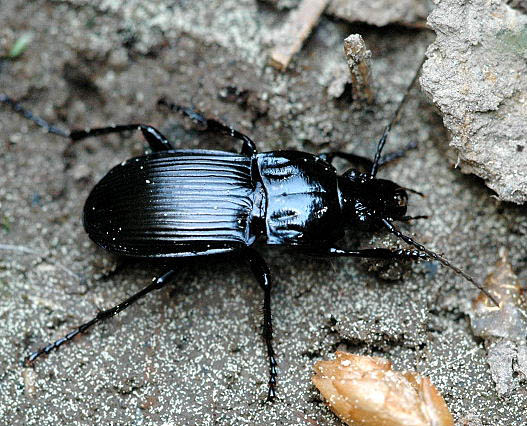 Picture taken in Commanster, Belgian High Ardennes Species: Abax parallelepipedus